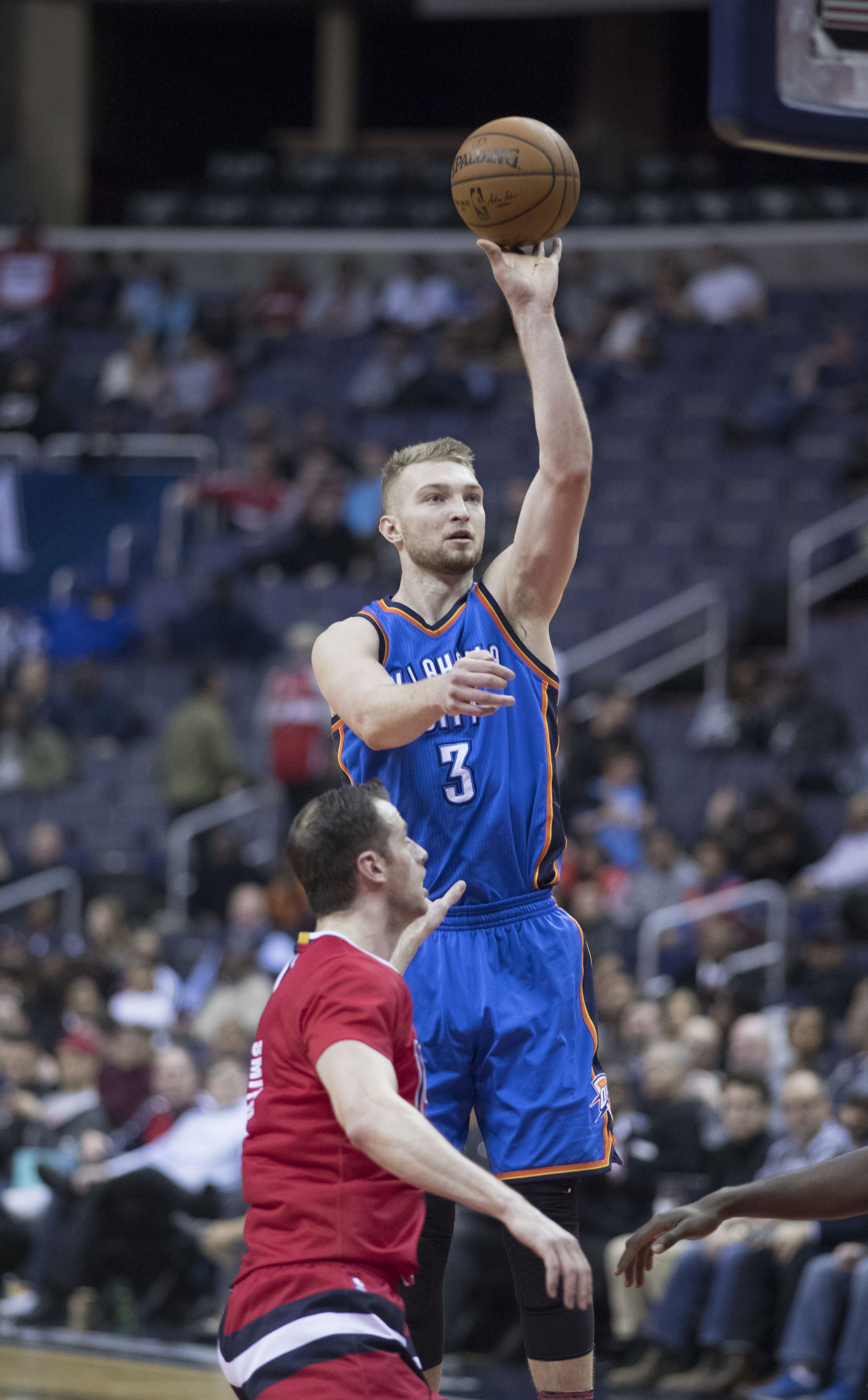 Domantas Sabonis attacking the basket during a Oklahoma City Thunder game versus the Washington Wizards.